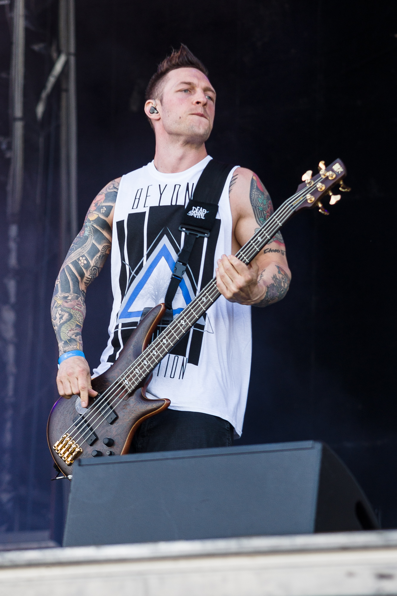 Marcus Wesslén, basist of Dead by April band. Ursynalia 2013 Warsaw Student Festival, Poland.